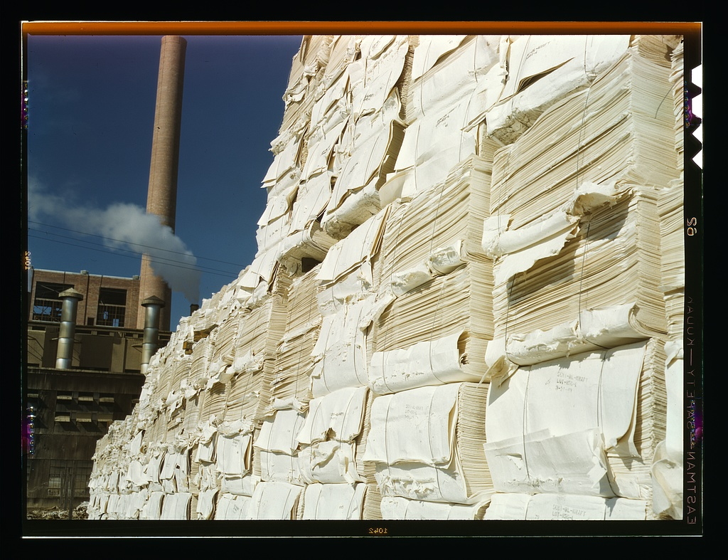 Title: Southland Paper mill, Kraft (chemical) pulp used in making newsprint, Lufkin, Texas